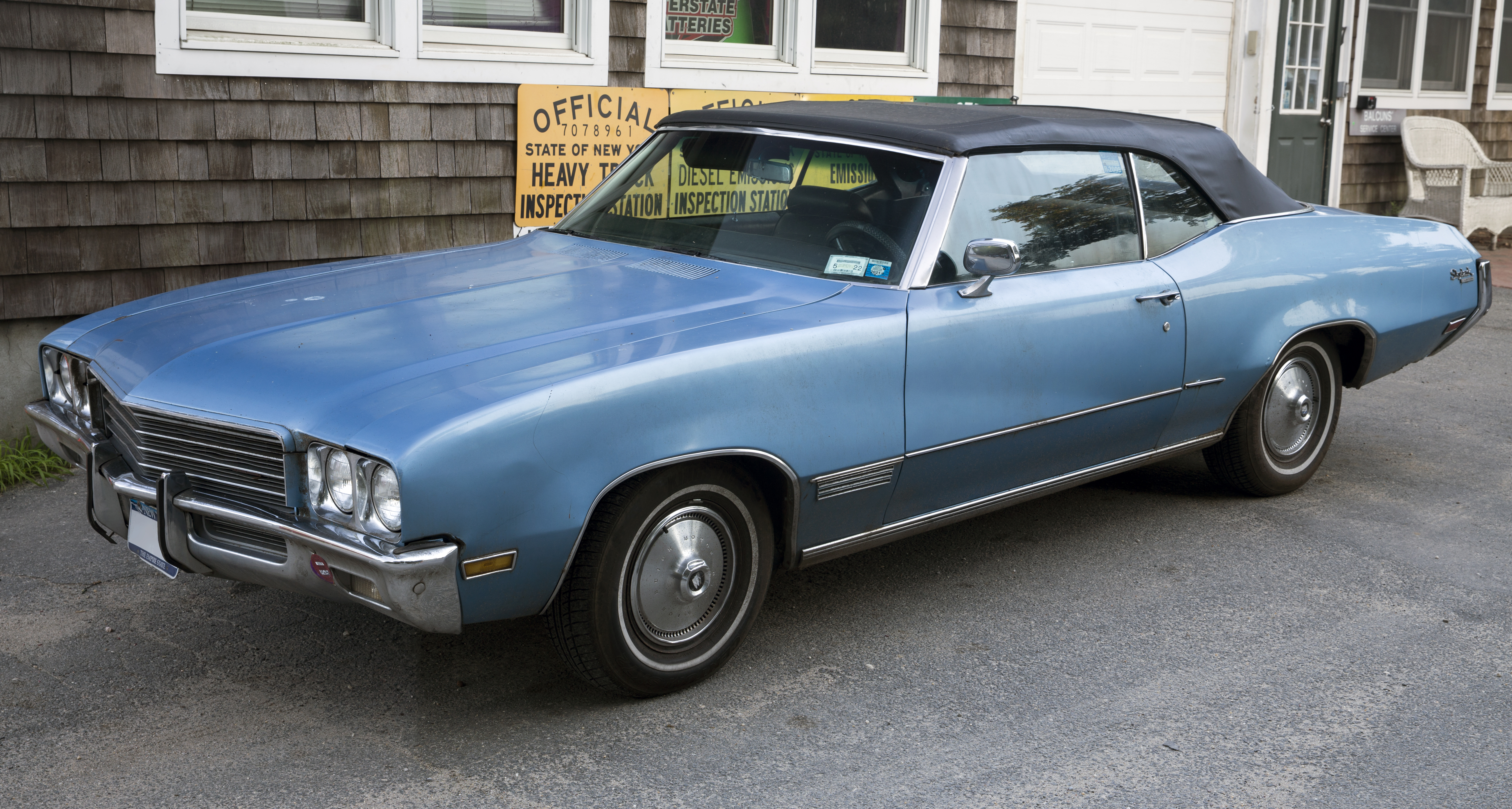 A 1971 Buick Skylark Custom convertible in Amagansett, NY. Built in Flint, MI.